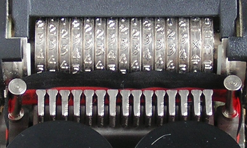 Drum, ink ribbon and hammers of a drum printer (Citizen CP325A) for desktop calculators